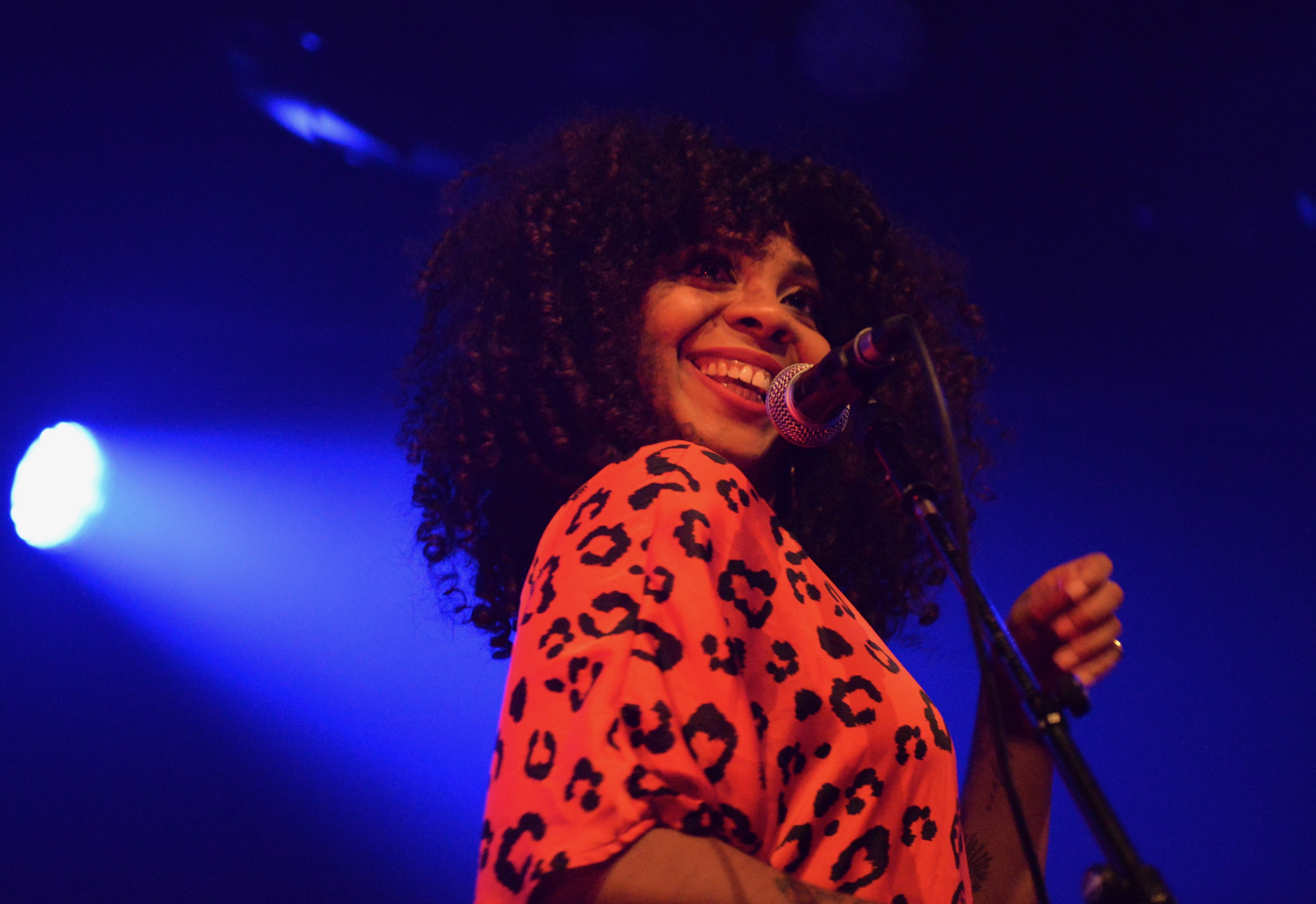 Ancienne Belgique januari 24th 2019